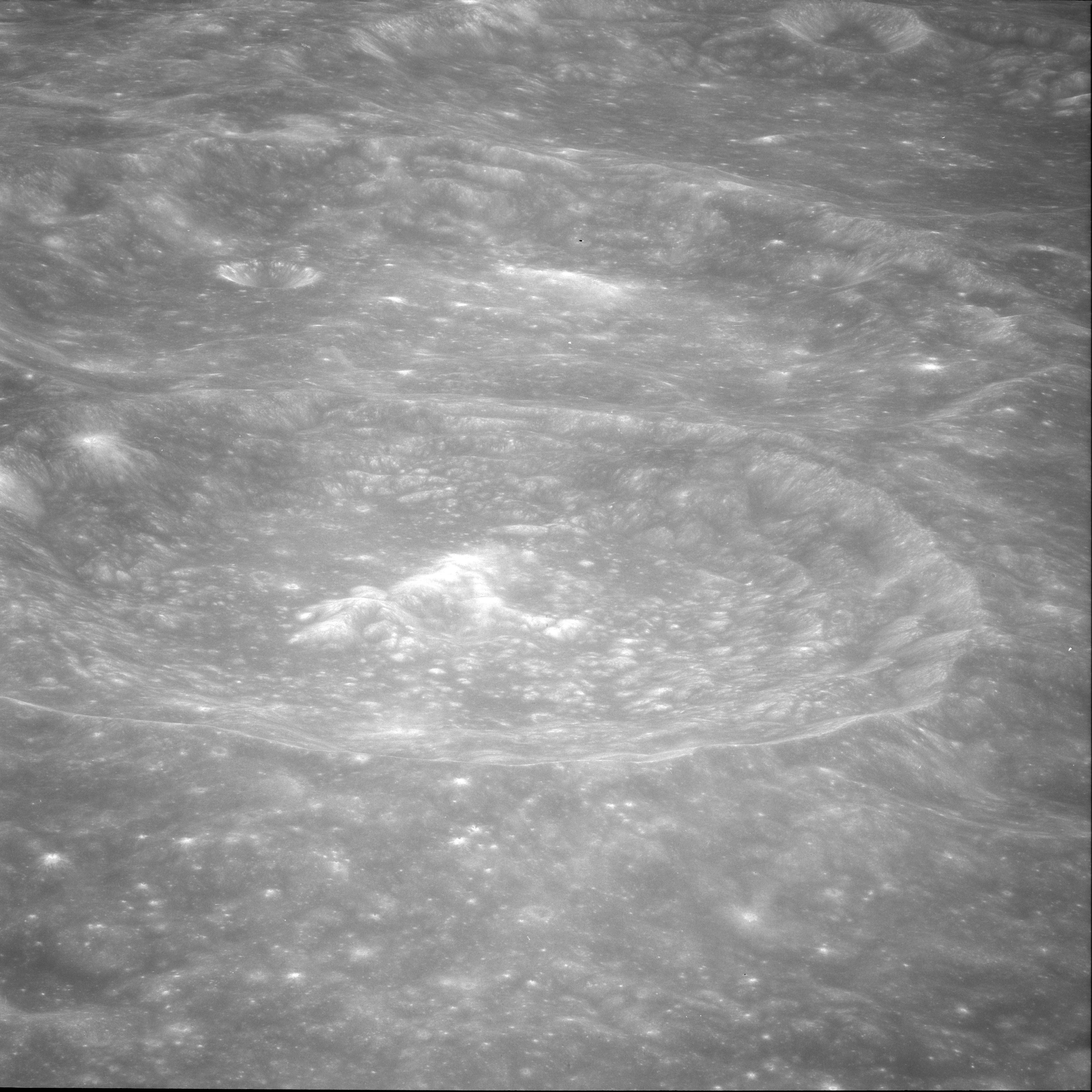 Oblique view of Moiseev (center) and Moiseev Z crater behind it. Part of Hertz is visible in the upper right. Far side of the moon. Facing north.